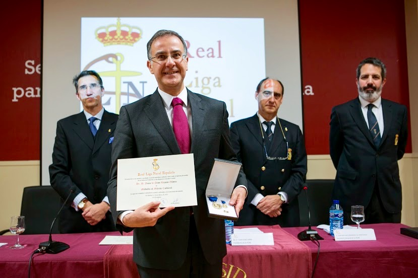 Real Liga Naval Española